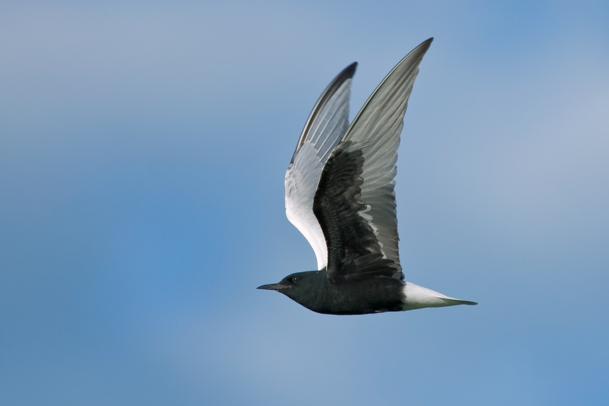 White-winged Tern (Chlidonias leucopterus) in flight.